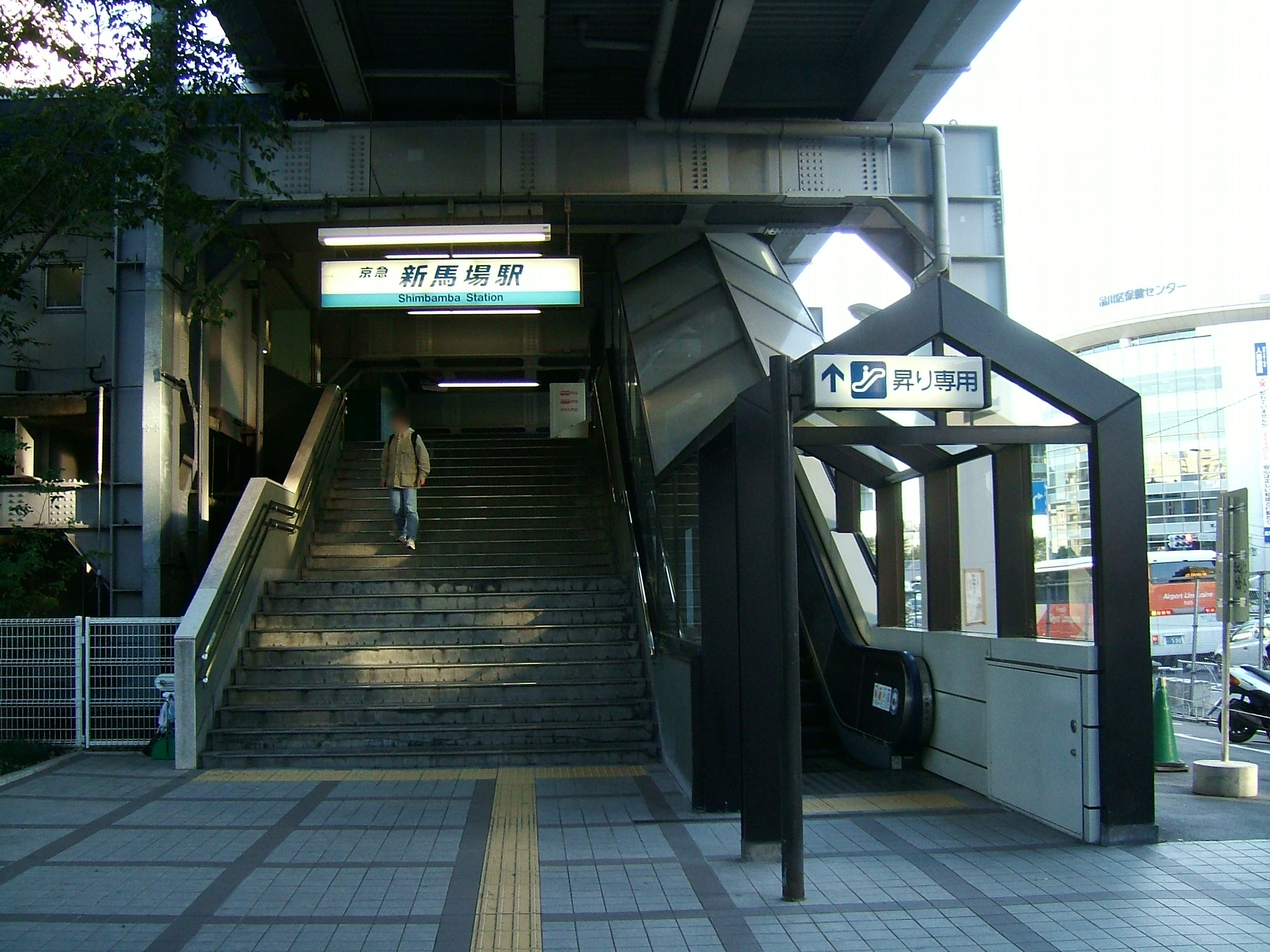 The northside entrance to Shimbamba Station on the Keihin Electric Express Railway Main Line in Shinagawa city, Tokyo, Japan